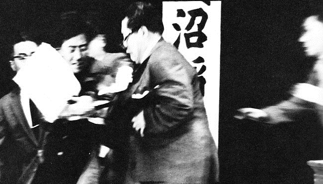 Assassination of Inejiro Asanuma